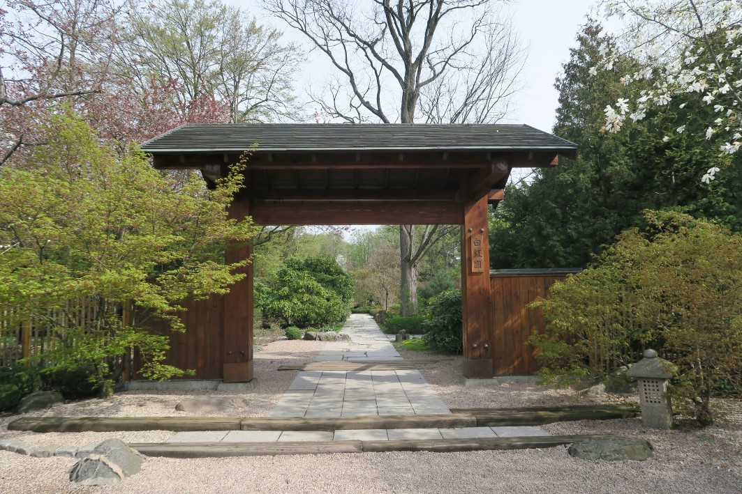 Jap garden Breslau main gate